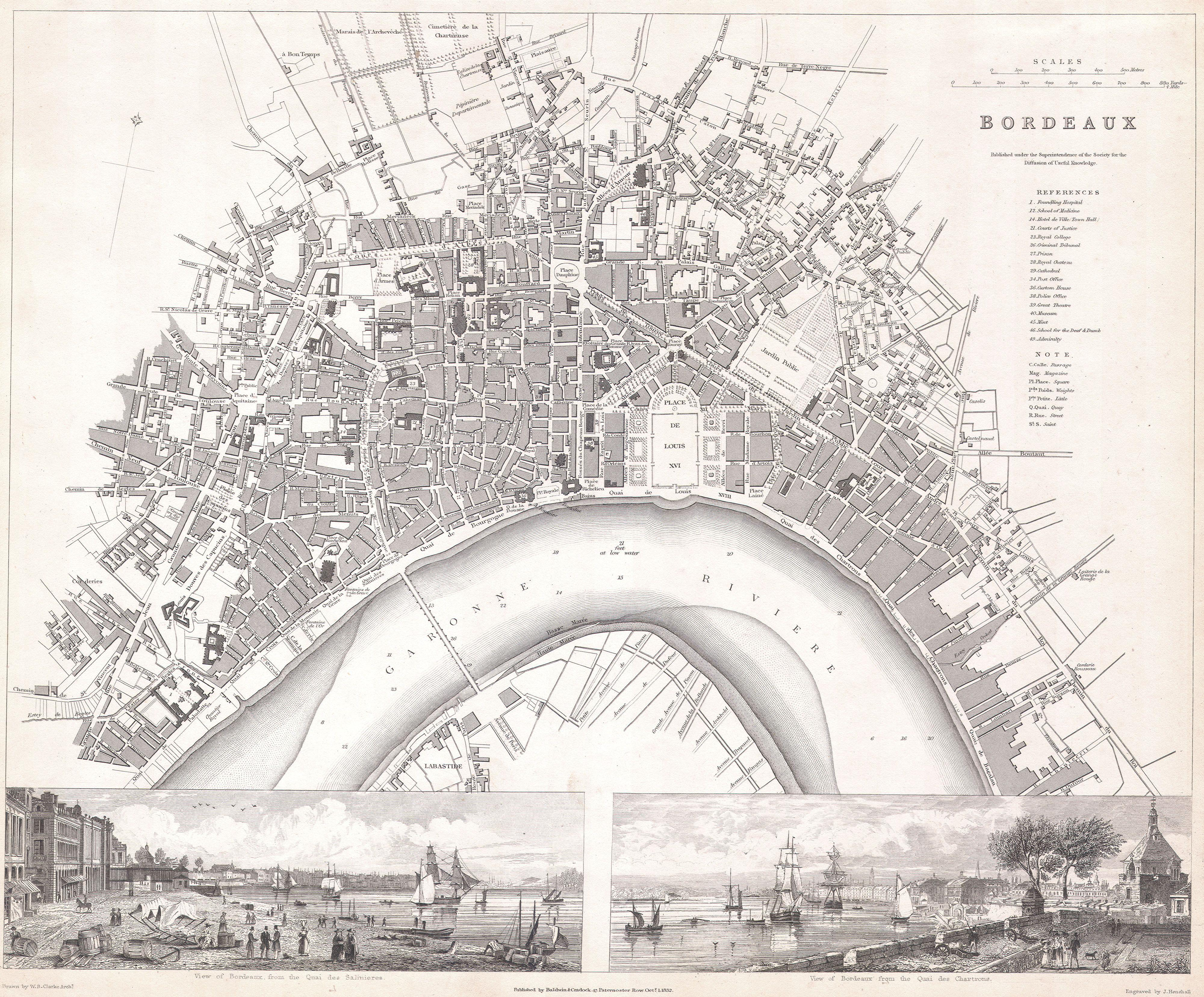 This map is a steel plate engraving, dating to 1832 by the Society for the Diffusion of Useful Knowledge, S.D.U.K. It represents the city of Bordeaux, famous for its extraordinary French Wines. This fascinating map depicts the streets of Bordeaux with such incredible detail that even individual buildings are labled. The bottom of the map is decorated with two views. One is a “View of Brodeaux from the Quai des Salinieres” and the other is a “Vies of Bordeaux from the Quai des Chartrons”. Published for the Society for the Diffusion of Useful Knowledge, by “Baldwin & Cradock of 47 Paternoster Row, Oct 1st, 1832.”.